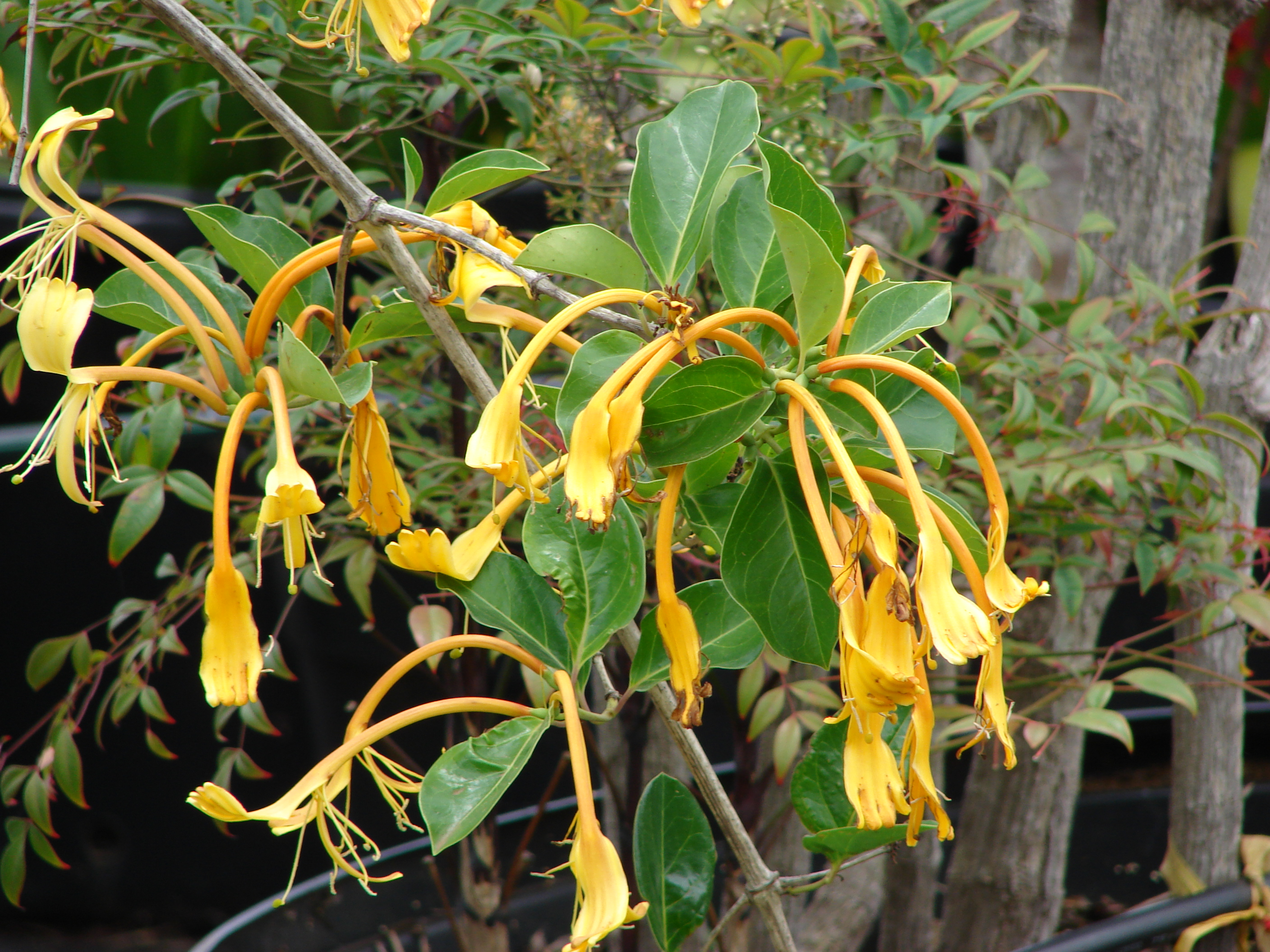 starr-090520-8187-plant-Lonicera_hildebrandiana-flowers_and_leaves-Keokea